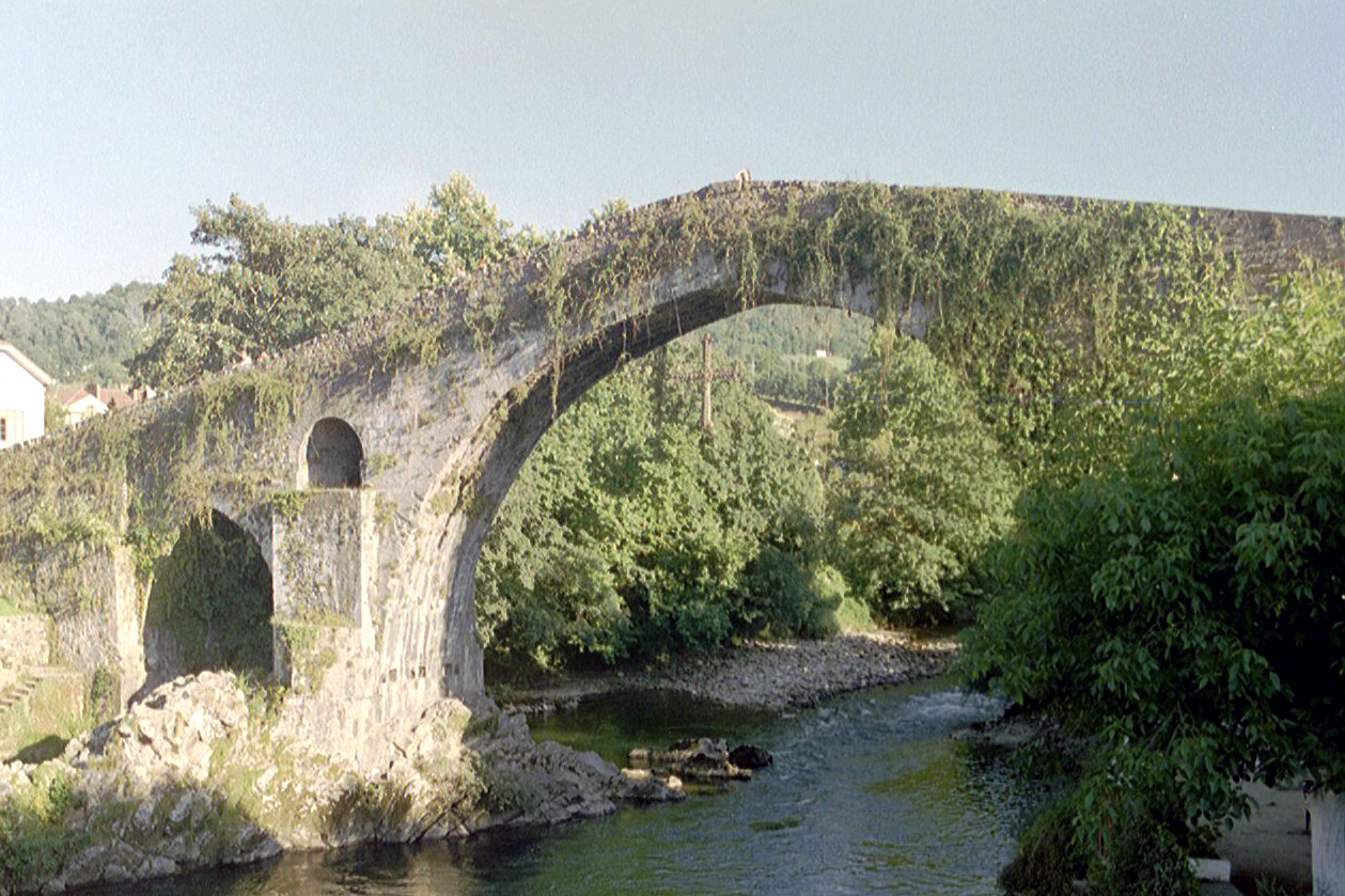 Roman bridge in Cangas de Onís near Covadonga in Spain. Photographed by Niels Bosboom in July 2003.